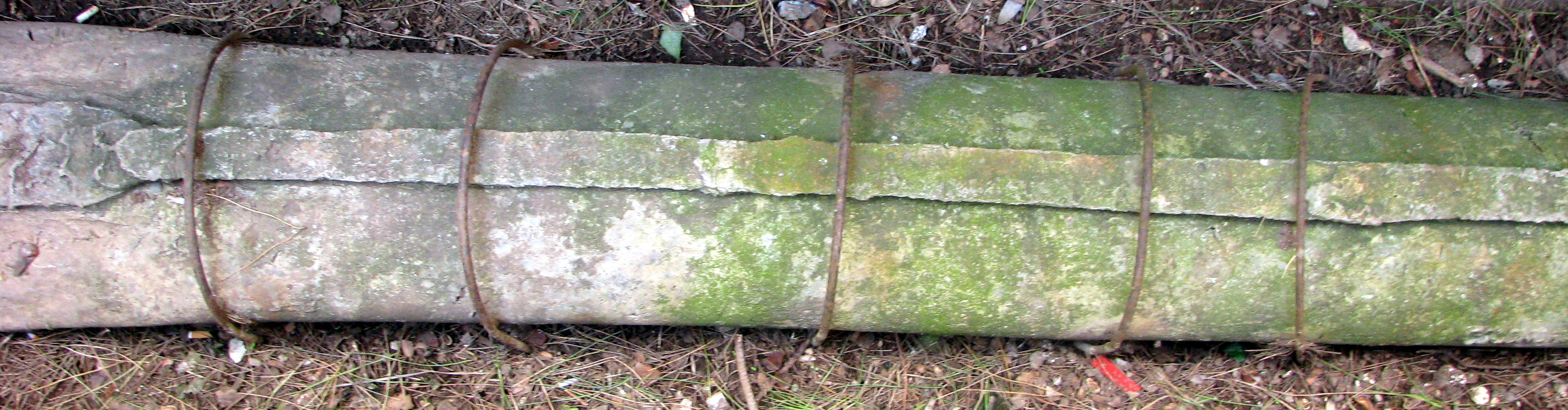 Ancient roman lead pipes in Ostia Antica